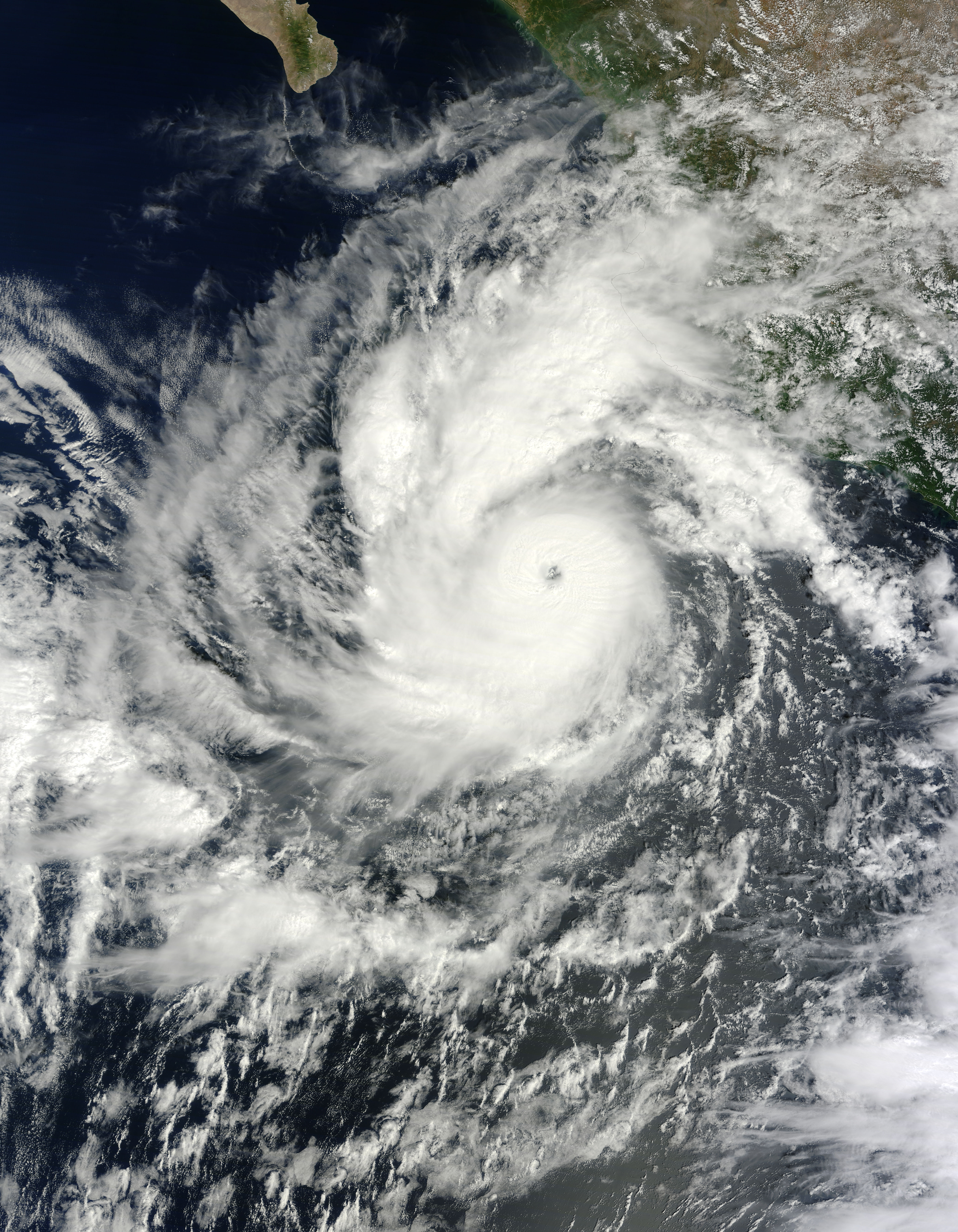 The Moderate Resolution Imaging Spectroradiometer (MODIS) on NASA’s Terra satellite captured this natural-color image of Hurricane Jova, of the 2011 pacific hurricane season at peak intensity, as a category 3 hurricane on October 10, 2011 at 17:40(UTC), nearing landfall.